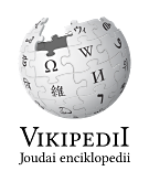 Wikipedia logo 2.0